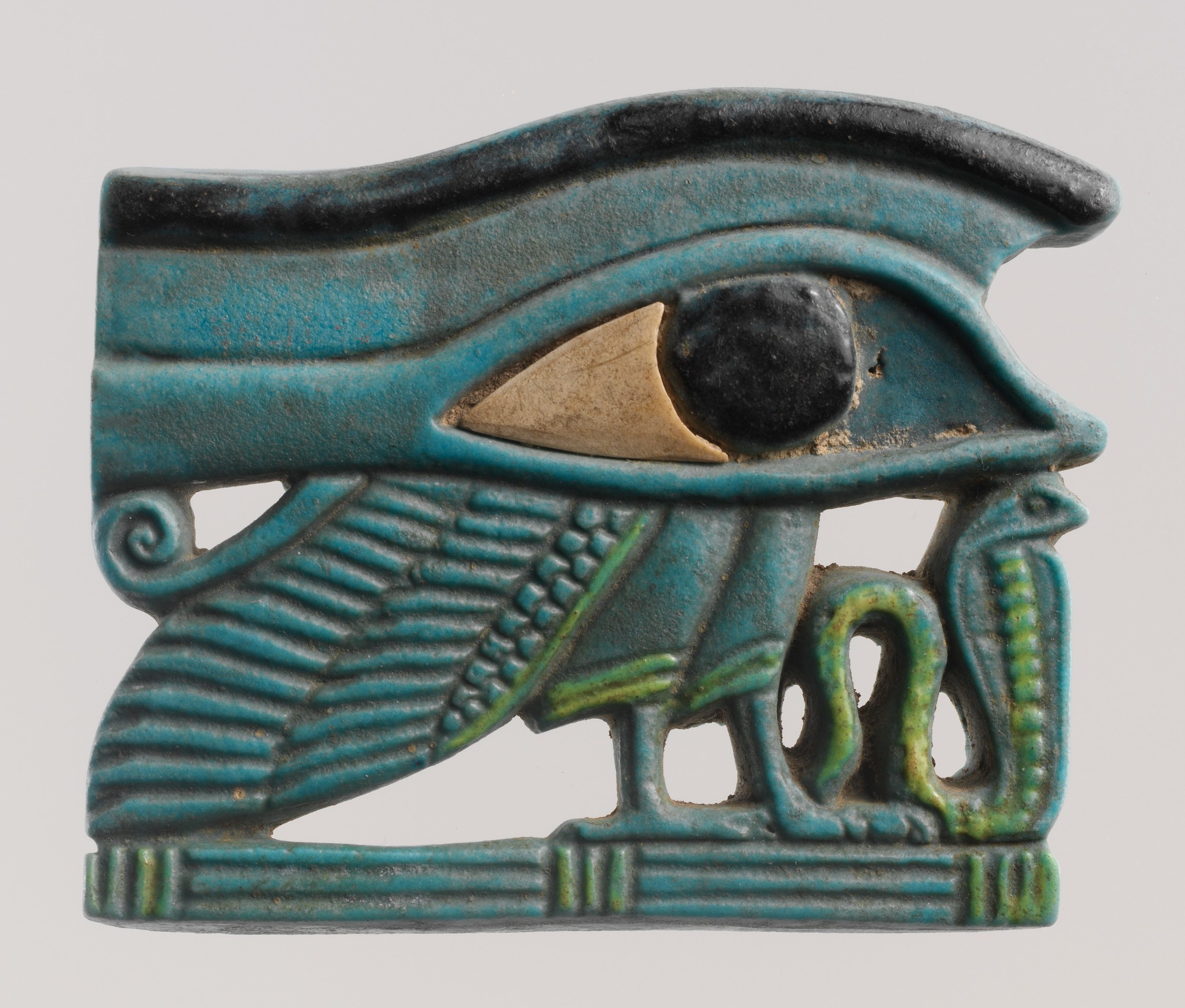 Amulet, Wedjat eye